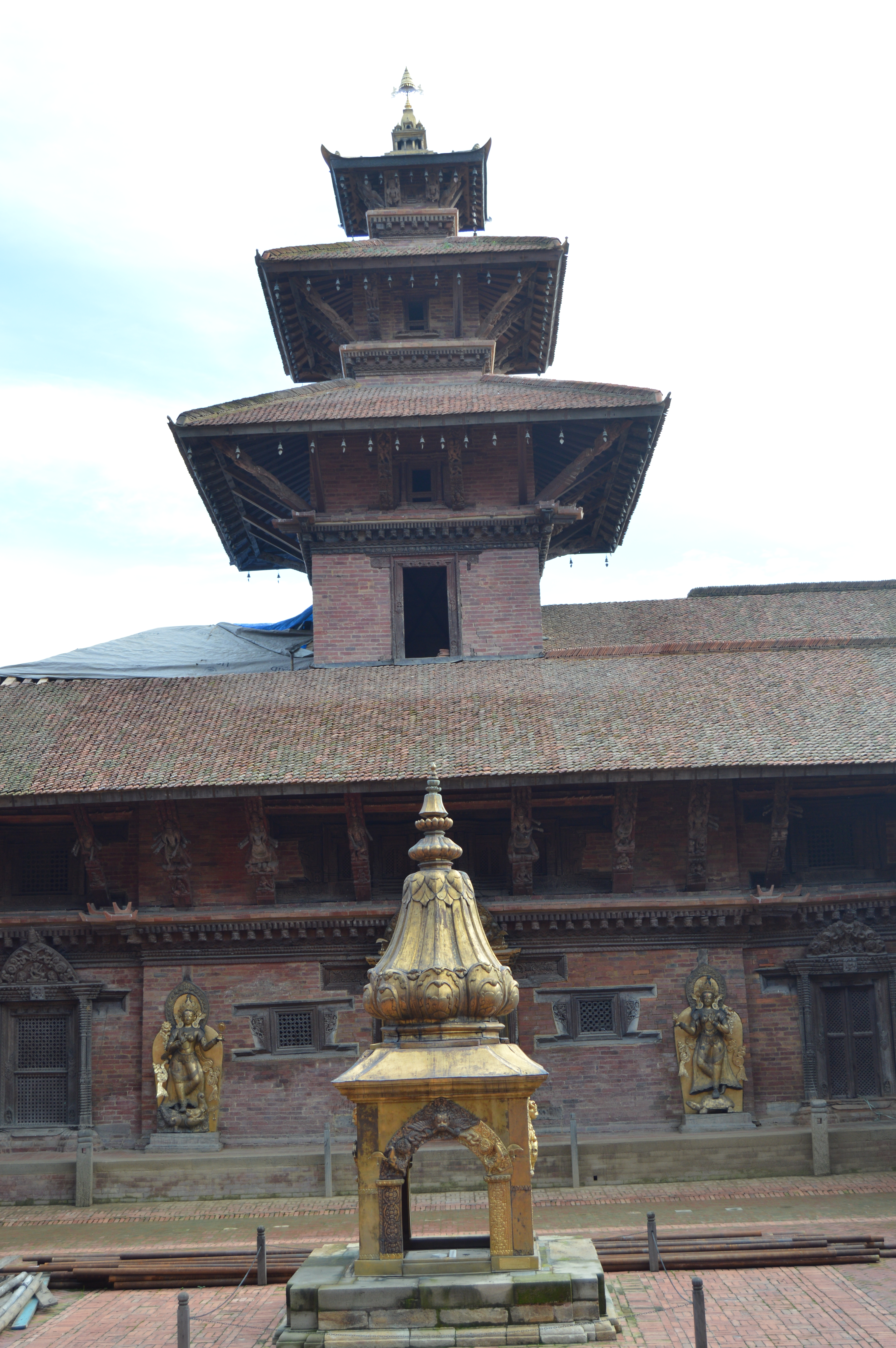 Mul Chowk